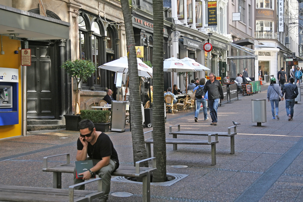 Vulcan Lane in Auckland, 2012